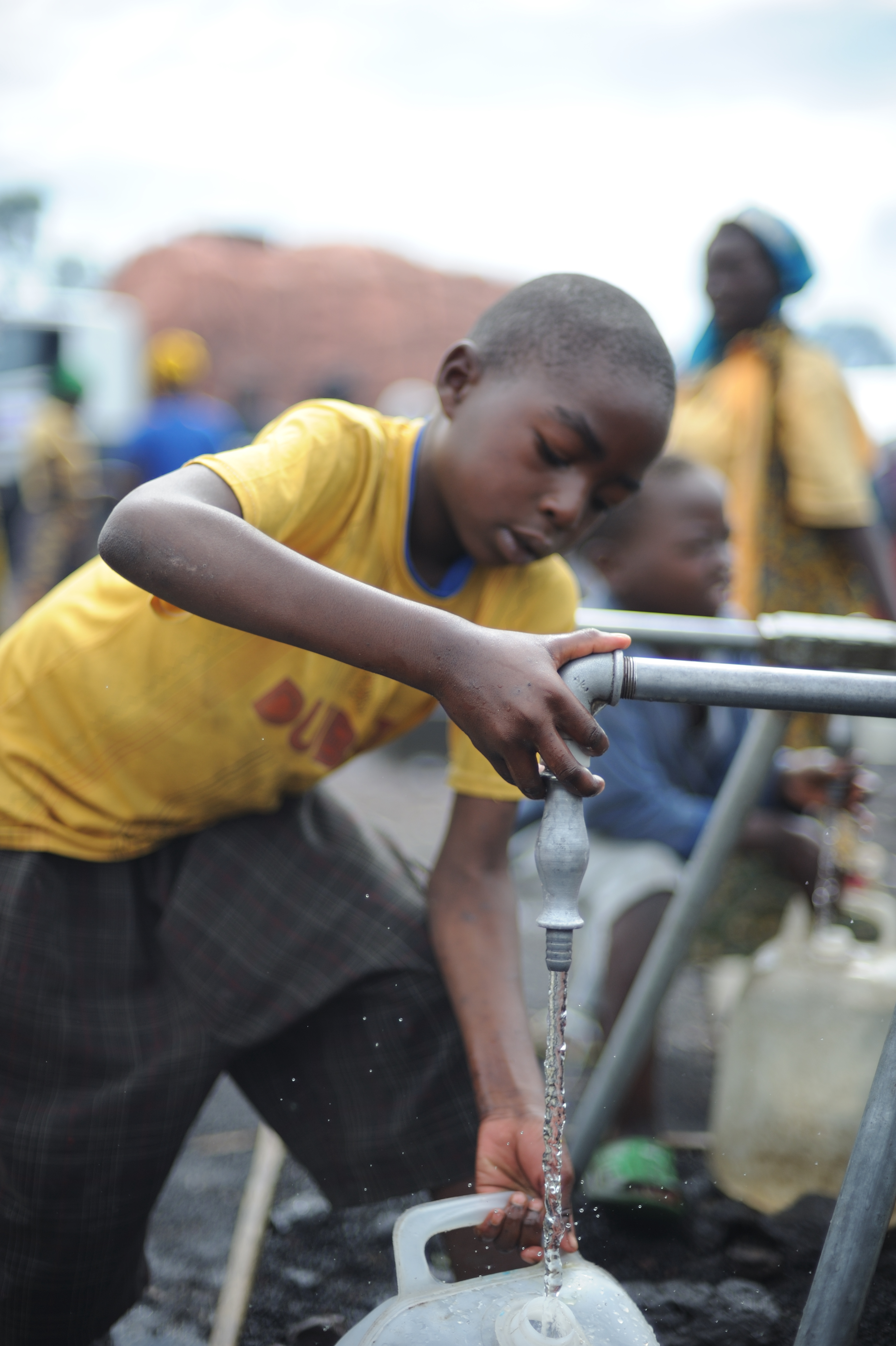 Humanitarian Aid in Dem. Rep. Congo in Kibati camp, the camp is between the government forces postions and the CNDP rebels.